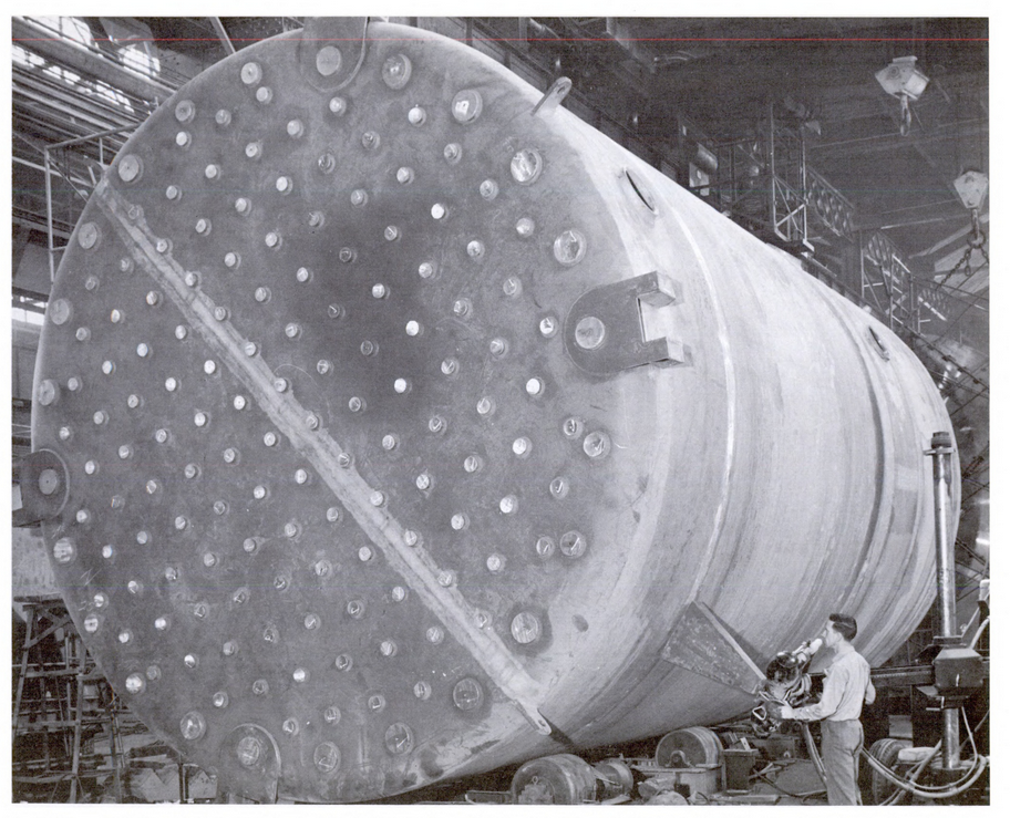 This is the view of the Hallam nuclear power facility under construction. This reactor was a sodium graphite reactor built in the early 1960s in Nebraska, USA.